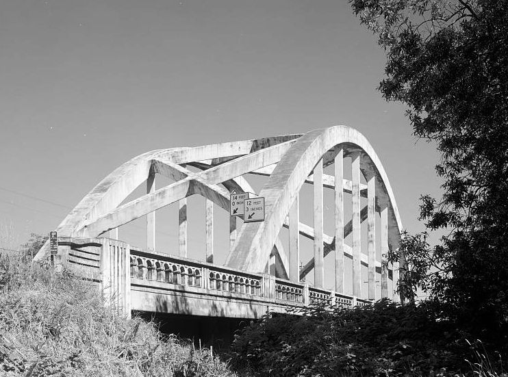 Wilson River Bridge, Spans Wilson River at U.S. Highway 101, Tillamook, Tillamook County, OR